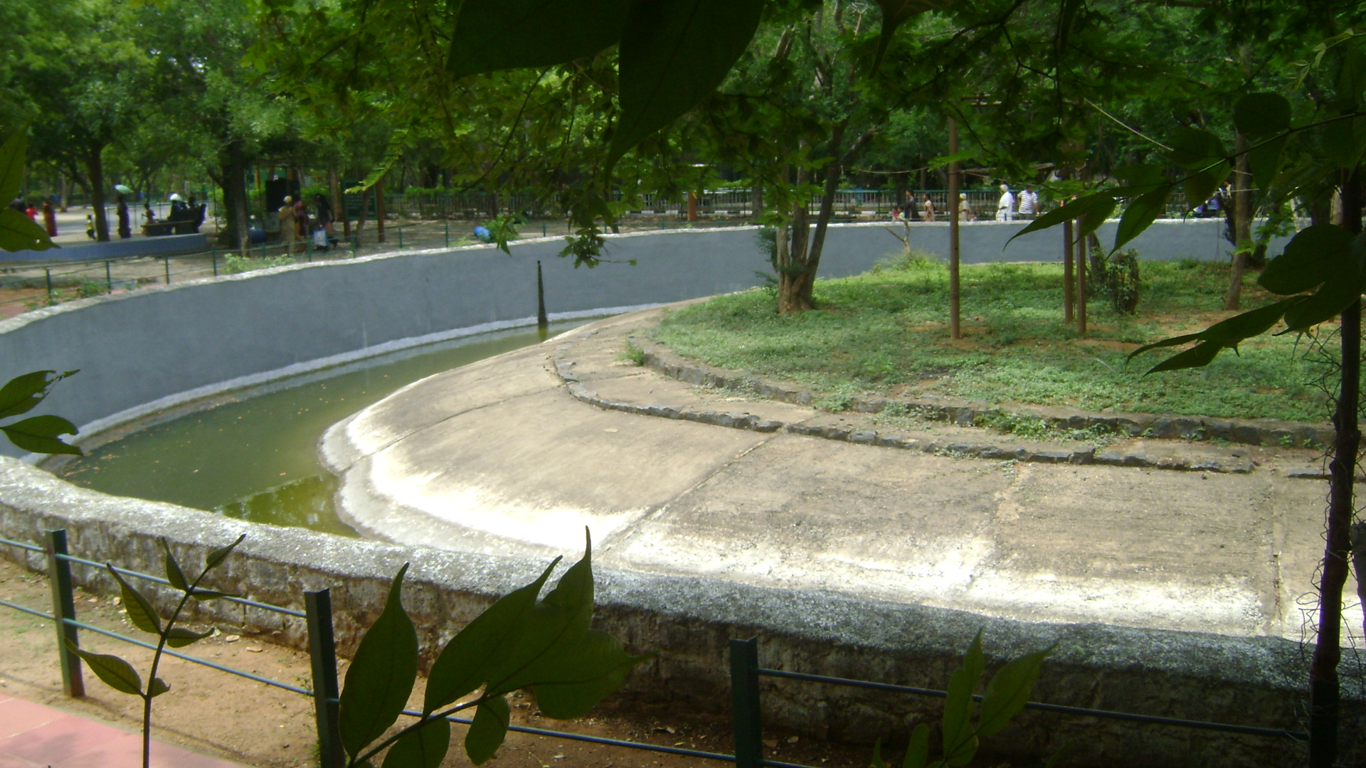 Typical moat with water at Vandalur Zoo, taken on 18 August 2012